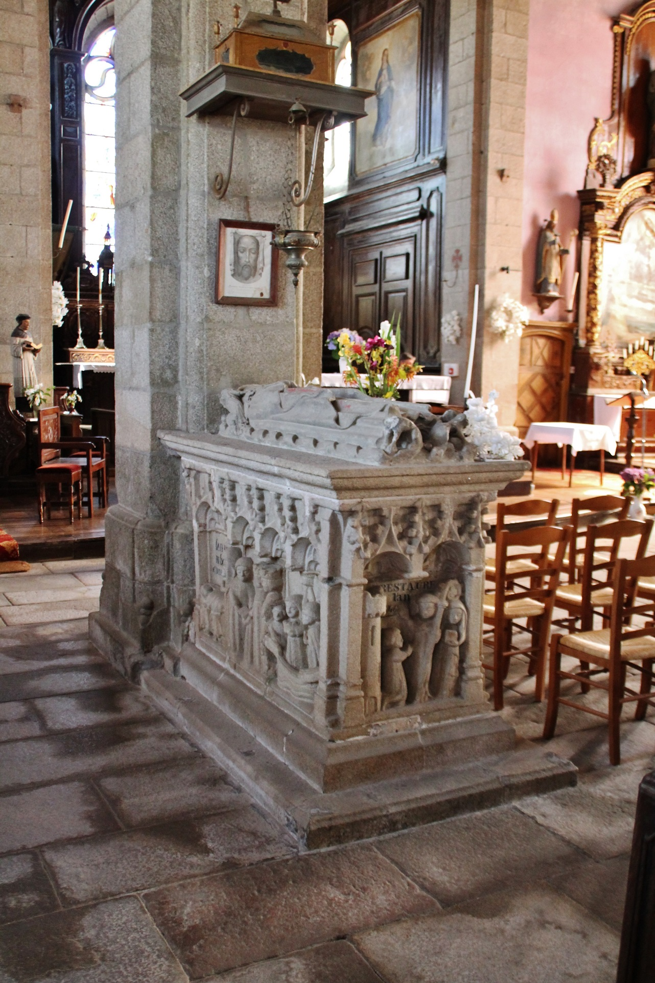 église Ste Pompée